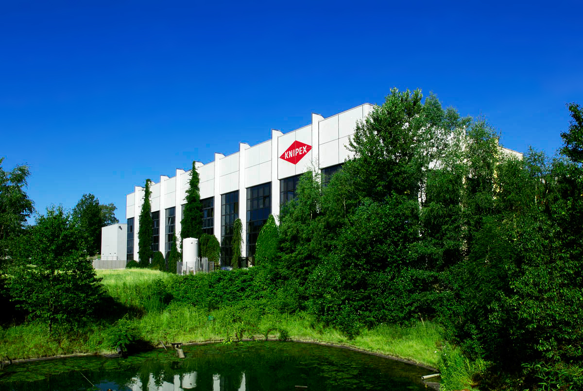 Company building of KNIPEX-Werk C. Gustav Putsch KG